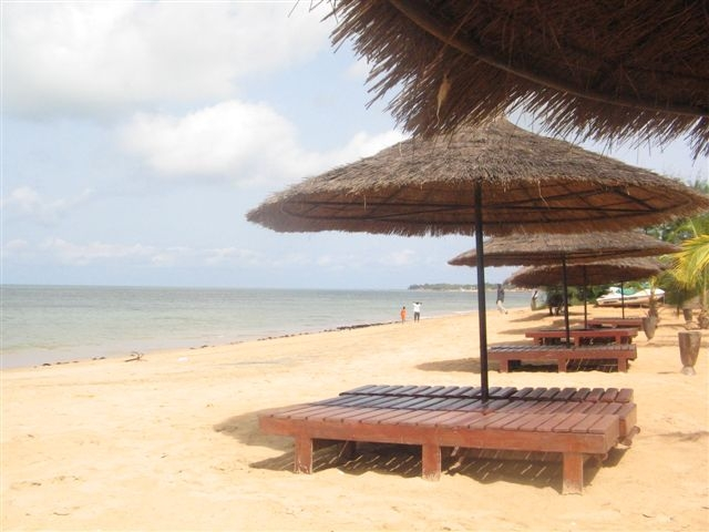 Beach of Saly, Senegal